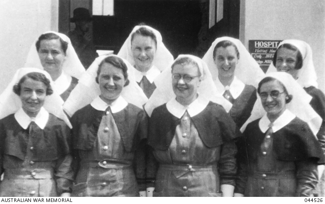 MALAYA, 1941. SISTERS OF THE AUSTRALIAN ARMY NURSING SERVICE (AANS), 2/4TH CASUALTY CLEARING STATION, 8 DIVISION. LEFT TO RIGHT: BACK ROW: BESSIE WILMOTT, WILHELMINA RAYMONT, UNKNOWN, ?ELAINE BALFOUR-OGILVY; FRONT ROW: ?PEGGY FARMANER, E.MAVIS HANNAH (WHO SURVIVED THE SINKING OF THE SS VYNER BROOKE AND CAPTIVITY AS A PRISONER OF WAR OF THE JAPANESE), MATRON IRENE DRUMMOND, UNKNOWN. (LENT FOR COPYING BY MRS ALLGROVE, NEE SISTER E.M. HANNAH).